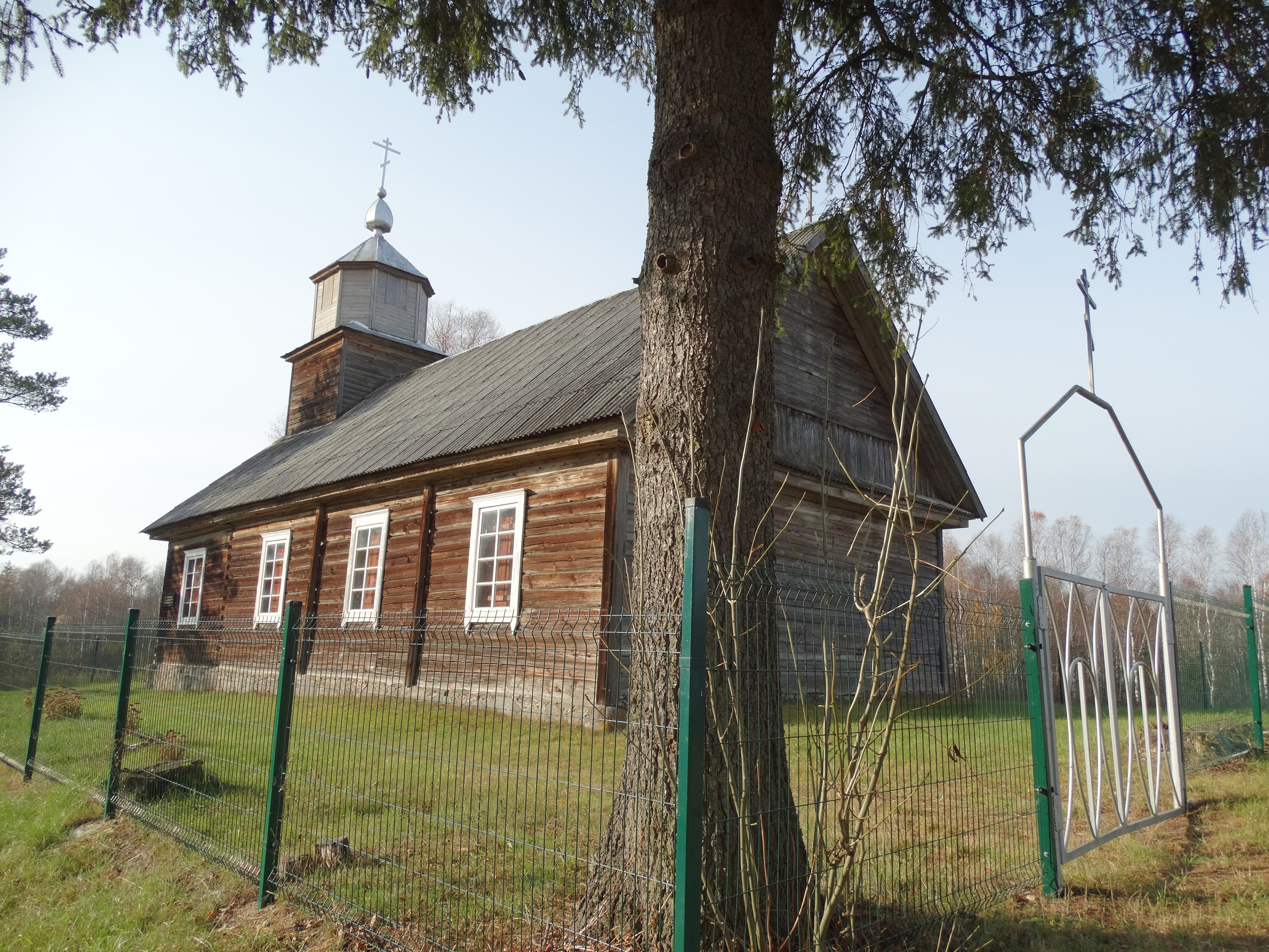 Nečėnai Old Believers Church, Utena district, Lithuania